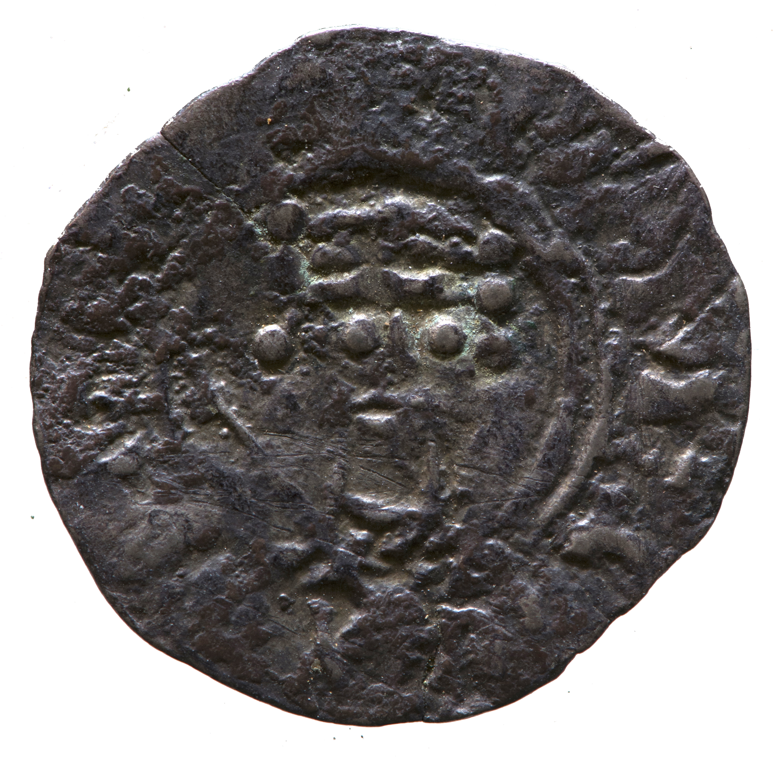 Obverse (front) of a silver penny of w: William II of England Crowned head facing forward